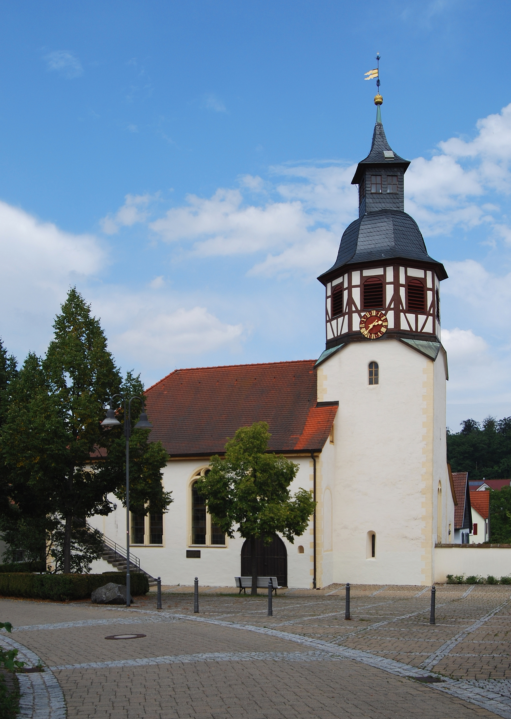 The Protestant church of Freudental, Baden-Württemberg.